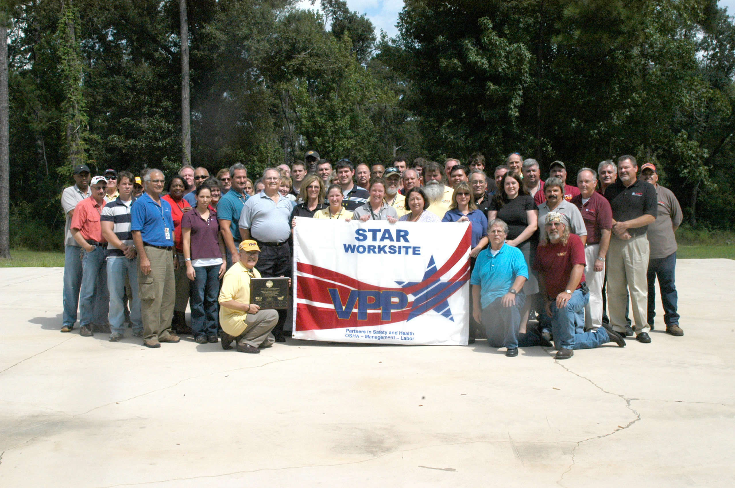 Applied Geo Technologies Inc. became the first resident agency at NASA's John C. Space Center to receive its Voluntary Protection Programs (VPP) Star Demonstration banner by the Occupational Safety and Health administration (OSHA). OSHA Area Director Clyde Payne presented a plaque of recognition to AGT Safety Manager Sharlene Majors during a Sept. 10 ceremony. AGT employees posed with the VPP Star Demonstration banner to signify the new status. OSHA established VPP in 1982 as a proactive safety management model so organizations and their employees could be recognized for excellence in safety and health.